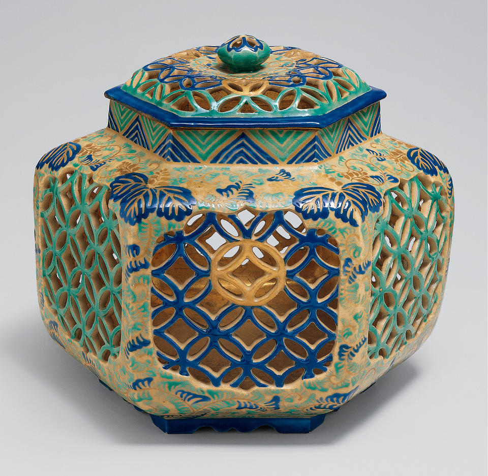 Japan; Brazier; Ceramics